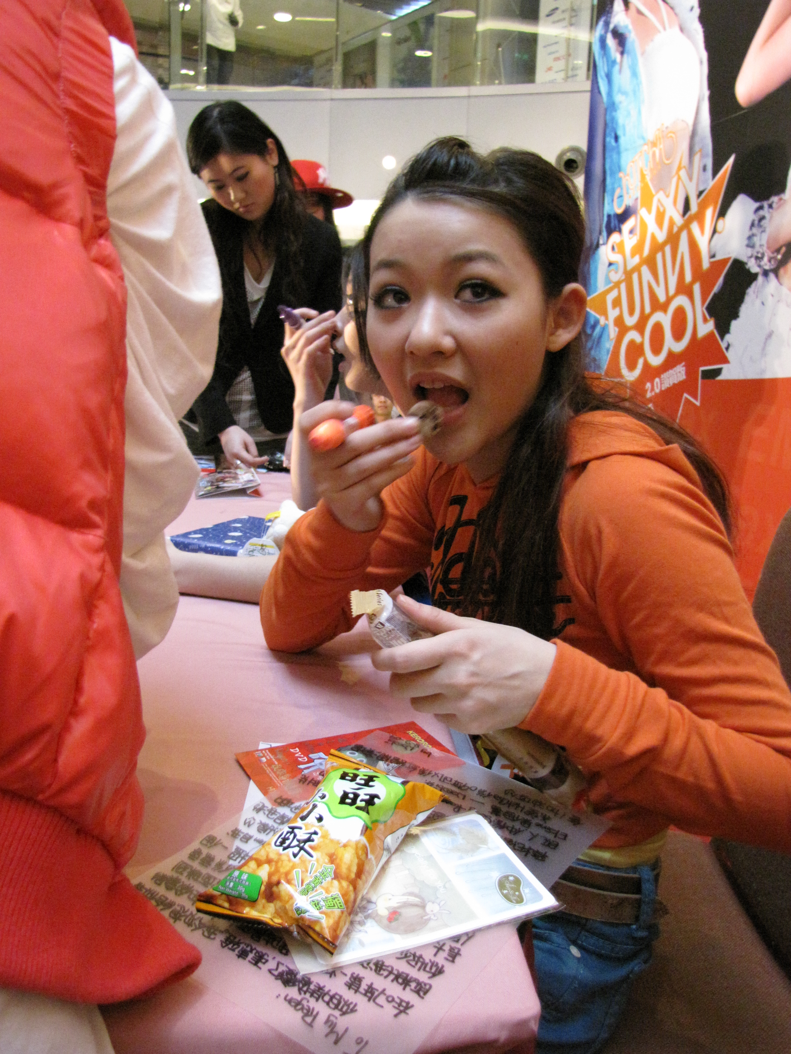 Regen Cheung (張惠雅) @ Hotcha